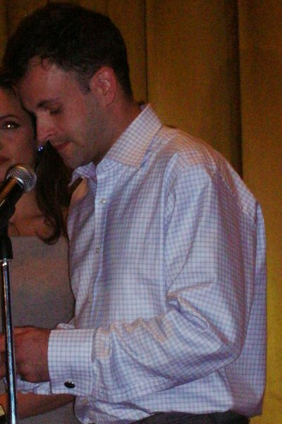 Jonny Lee Miller at the presentation of "Peace One Day" in New York City, 2005. Personal/Non-professional photo.